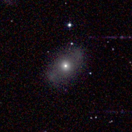 A near-infrared image of NGC 4151 taken in the 2MASS survey. Credit: 2MASS/NASA.